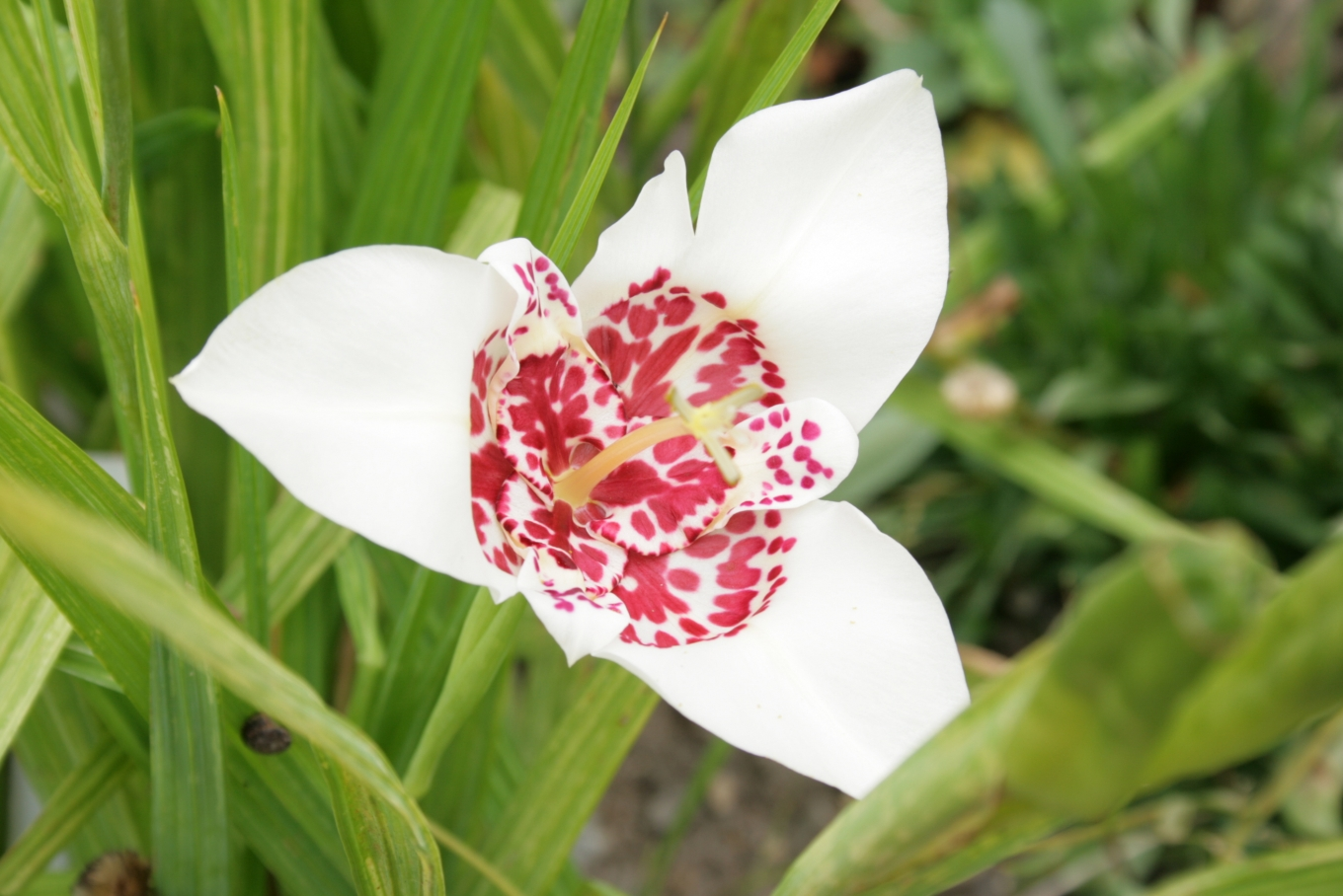 Tigridia pavonia: Flower (Photo from the Botanical Garden of Aarhus, Denmark)